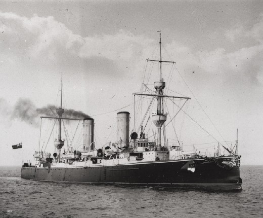 Chinese cruiser Haitien before the handover to China, still under the British flag, in 1897